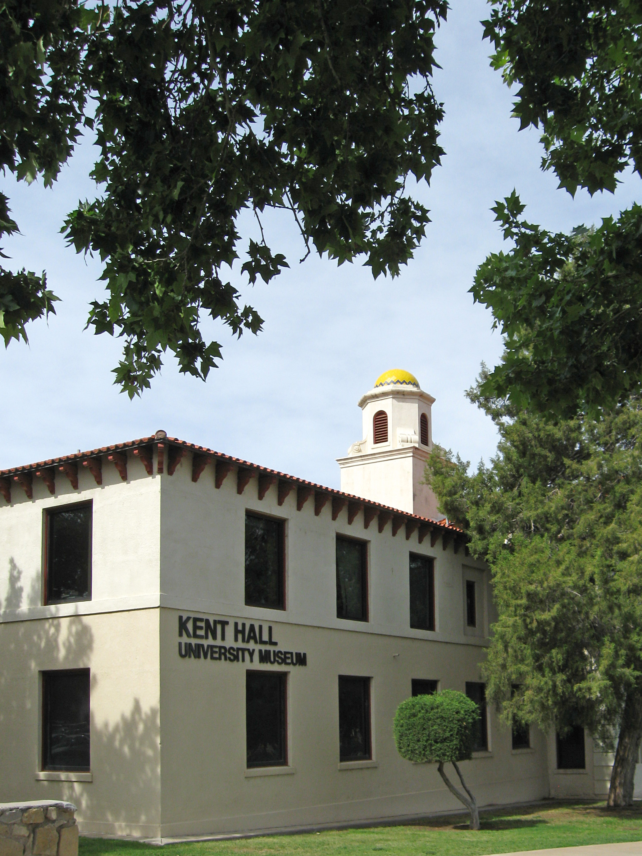 University Museum of New Mexico State University's Las Cruces campus, located in Kent Hall on University Avenue at Solano. The museum's collection is primarily anthropological.